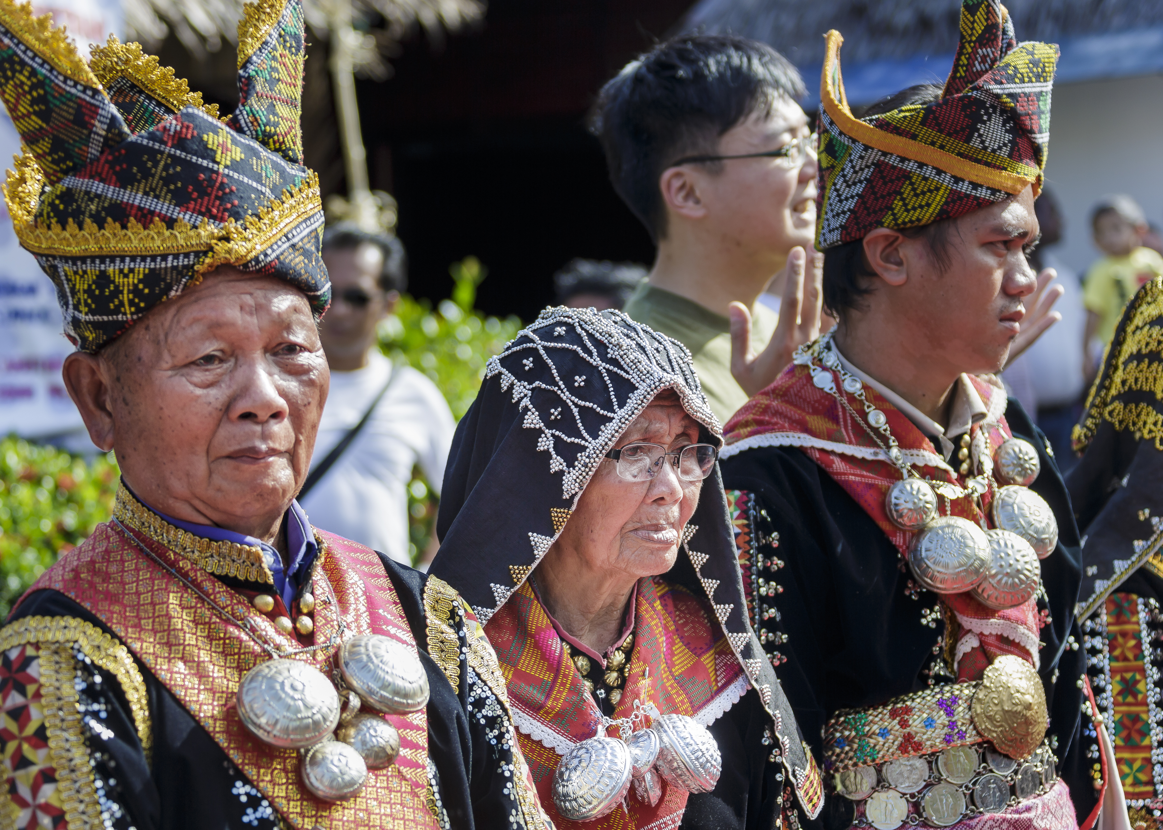 Penampang, Sabah: Members of the Dusun Tindal people during Kaamatan 2014